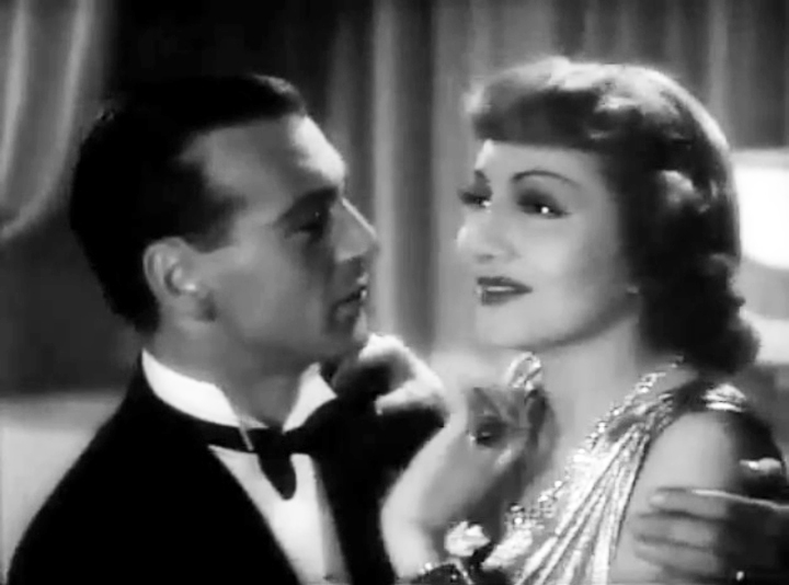 Gary Cooper and Claudette Colbert in the film trailer for Bluebeard's Eighth Wife (1938).